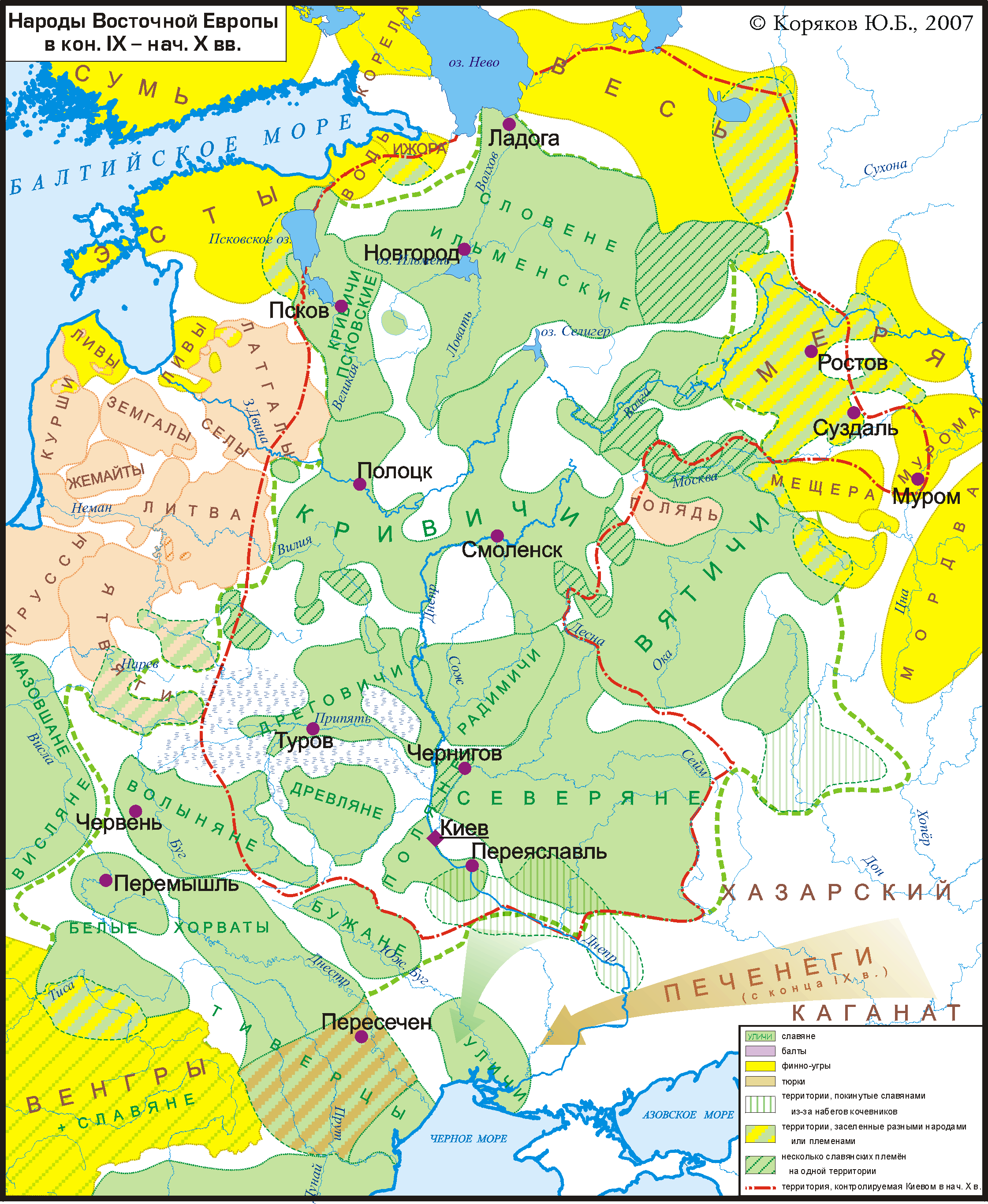 Ethnic groups of East Europe in late 9 -- early 10 cc.